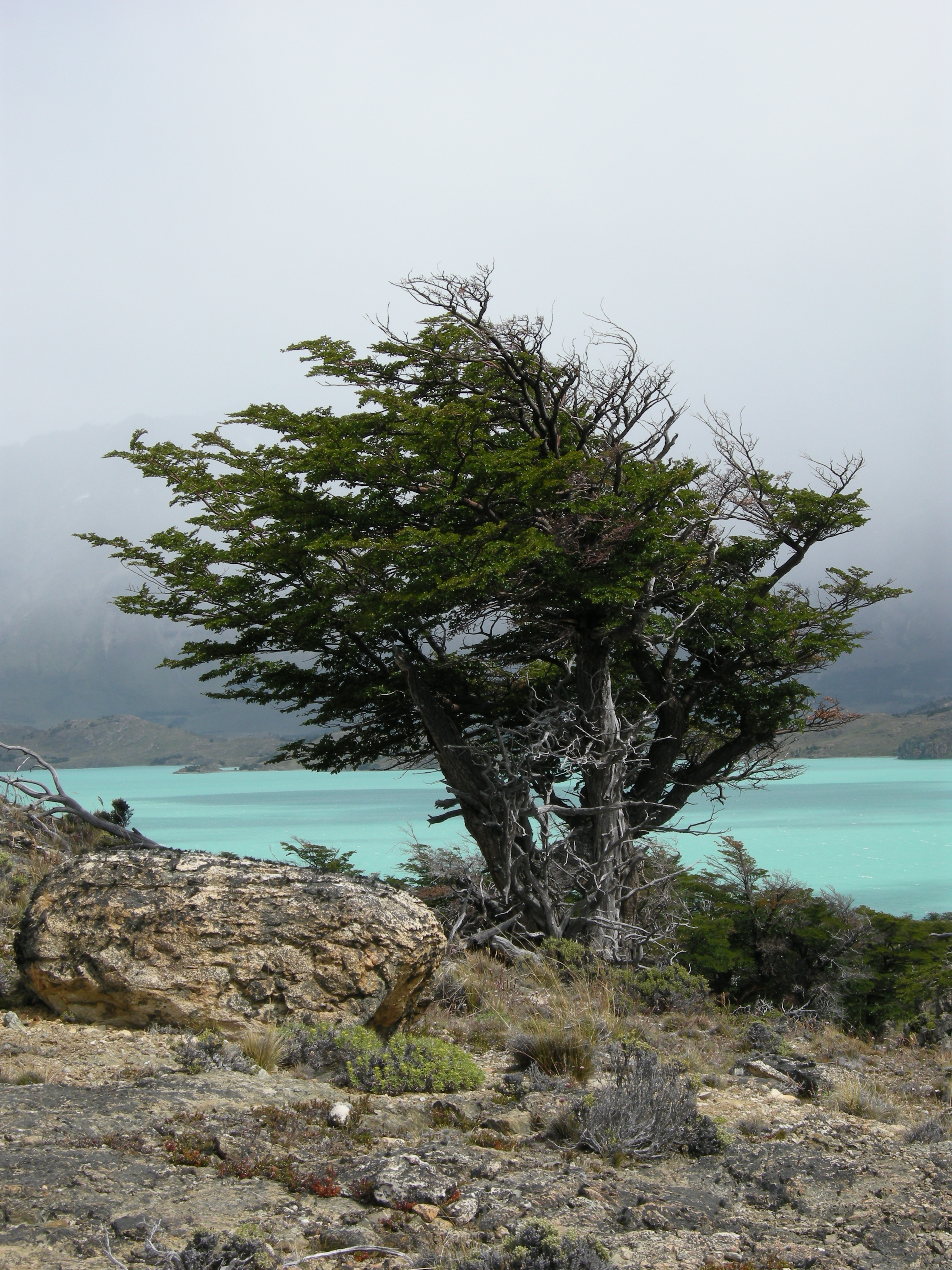 General view of the species Hypochaeris incana. Picture taken in Belgrano peninsula, in the Perito Moreno national park (Santa Cruz provincia, Argentina).